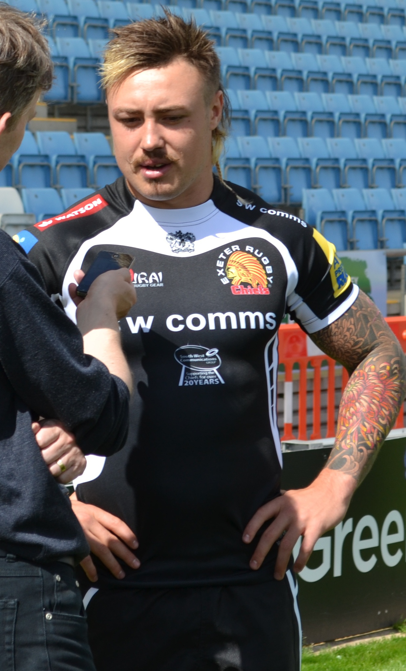 Nowell, media interview, April 8, 2015